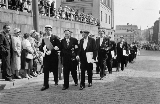 University of Helsinki Faculty of Arts doctoral promotion 31 May 1960. In the middle of the front row V. A. Koskenniemi, Finnish poet, translator, literary critic and scholar.